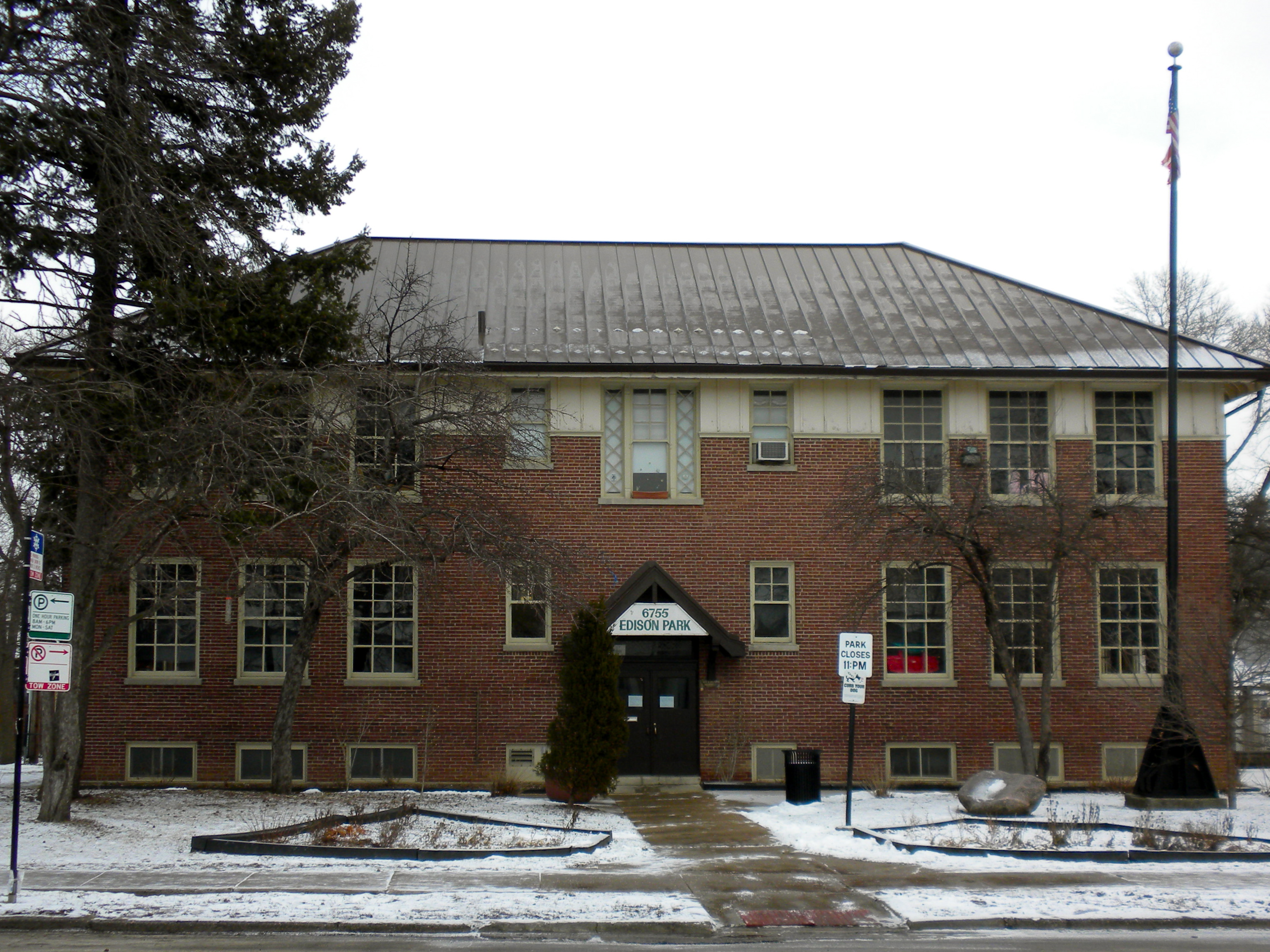 Building in Edison Park (park) in the neighborhood of Edison Park, Chicago (far NW side). The building and park are on the NRHP